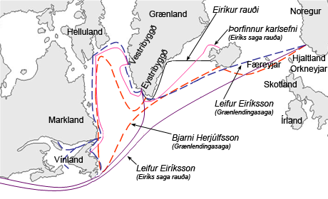 Graphical description of the different sailing routes to Greenland, Vinland, Helluland and Markland travelled by different characters in the Icelandic Sagas, mainly Saga of Eric the Red and Saga of the Greenlanders. Modern Icelandic versions of the Norse names.